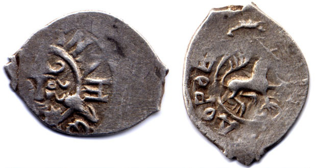 Rostov money